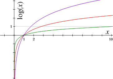 Logarithms: red is , green is , purple is . Created by Enoch Lau. As a courtesy, please let me know if you alter this image or this image description page.